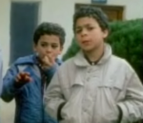 The Khadr family, in an early photograph. The family has agreed to license this photo under CC-BY